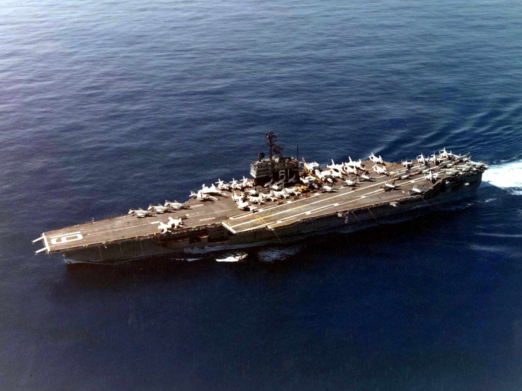 The U.S. Navy aircraft carrier USS Ranger (CVA-61) underway in the Pacific Ocean in 1974. Ranger, with assigned Carrier Air Wing 2 (CVW-2), was deployed to the Western Pacific from 7 May to 18 October 1974.